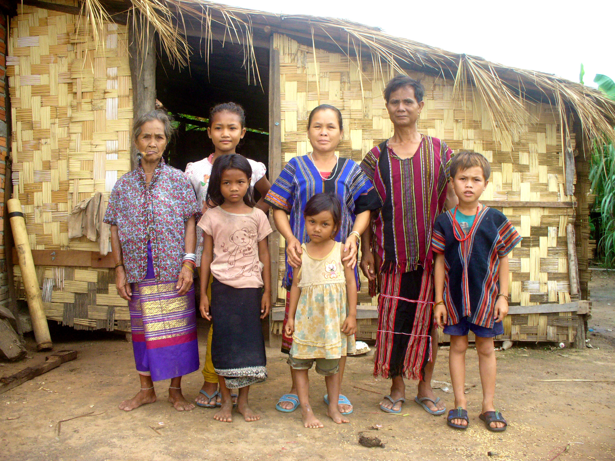 A Brao family stand outside their home in Attapeu Province, Laos PDR. Some wear the traditional clothes. The Brao are one of the 49 ethnic groups recognized by the Lao government.